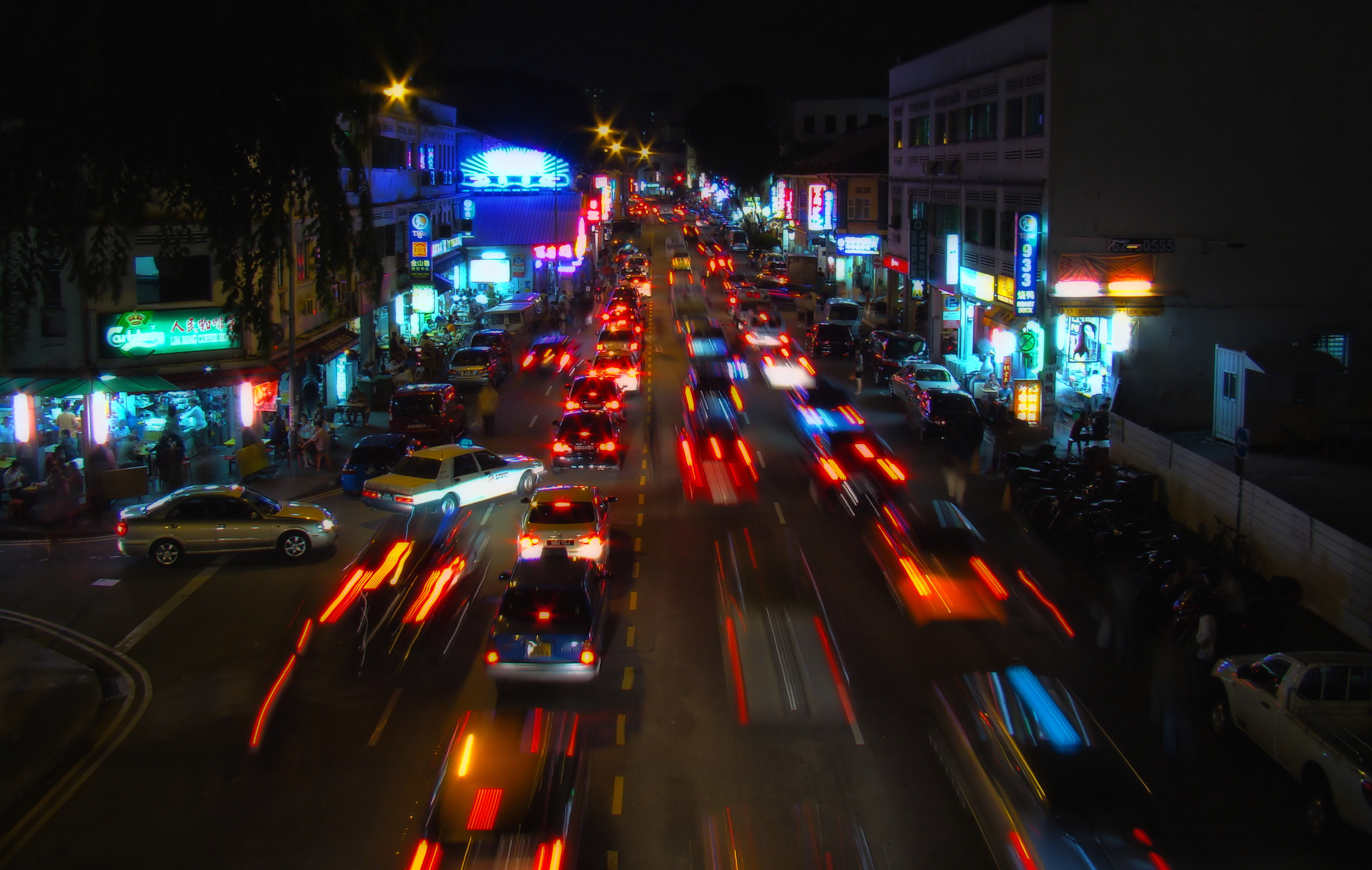 The nighttime view from a pedestrian bridge above Geyland Road in Singapore. It's a lively scene, with a somewhat seedy (especially by Singaporean standards) clientele in the alleys and streets leading off this road.